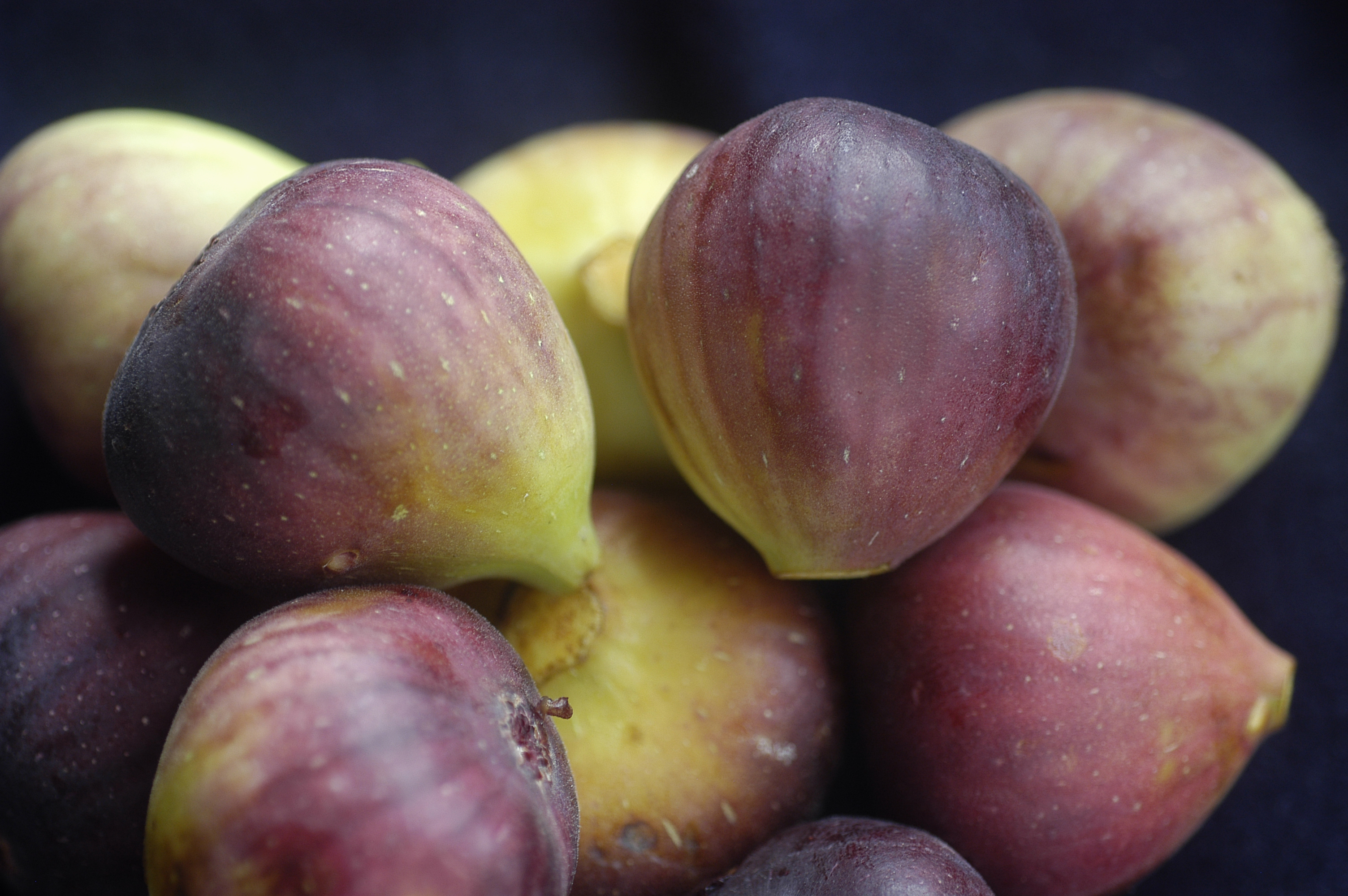 Ficus carica, Moraceae, Common Fig, infrutescences